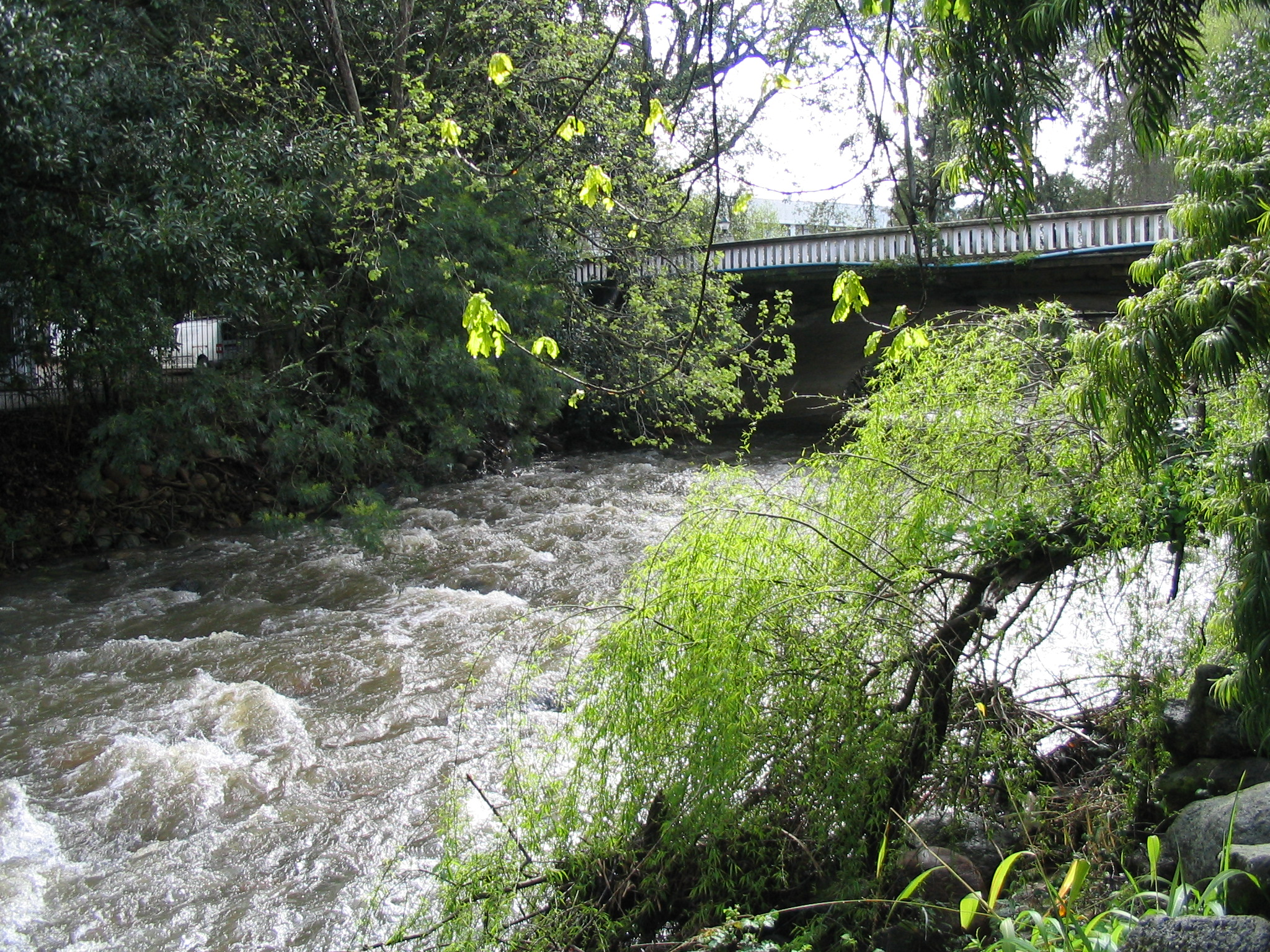 Eerste River in Stellenbosch after heavy rains, from De Oewer Riverside Food and Wine Garden